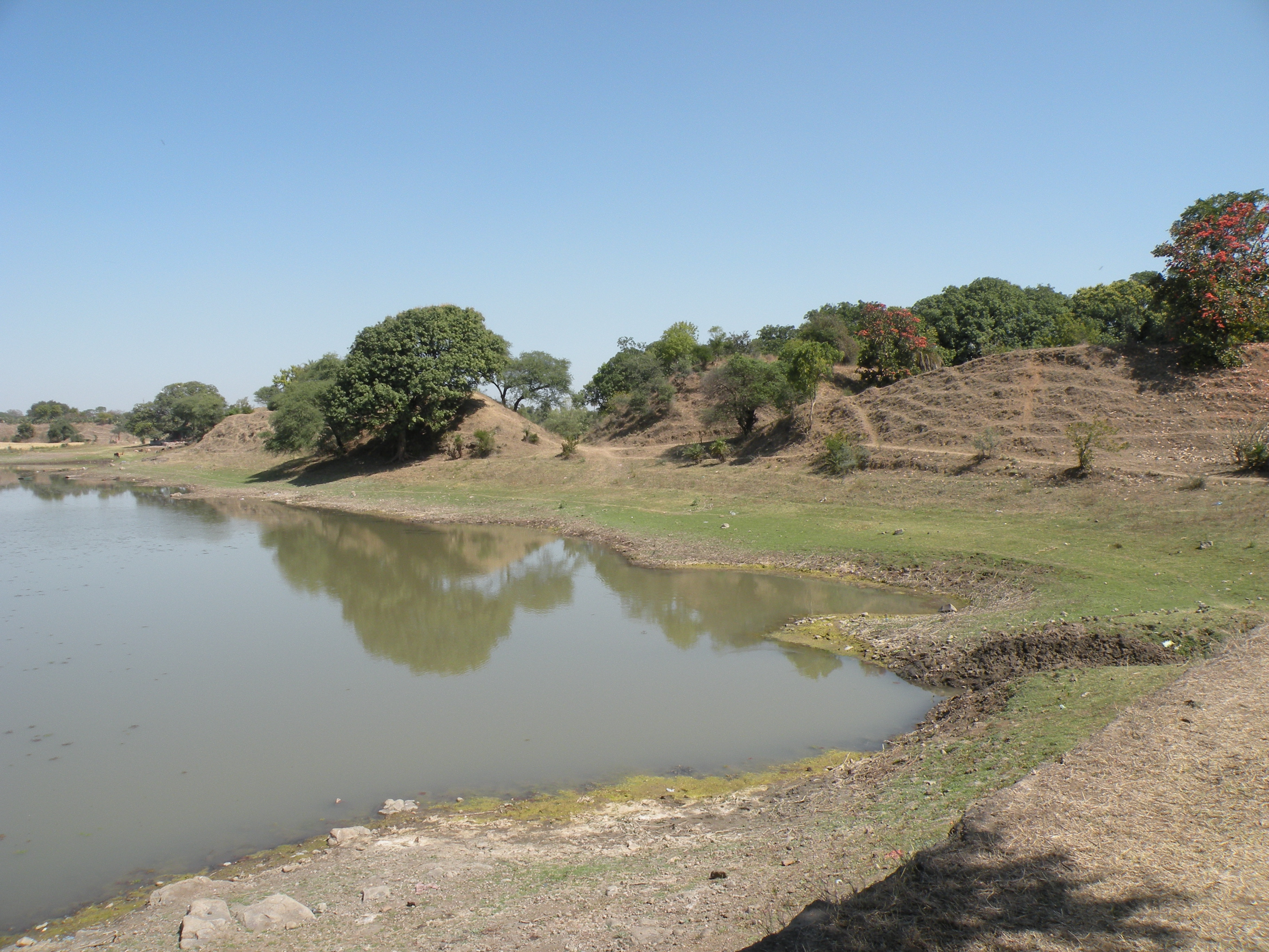 The earthen ramparts at Dhar, Madhya Pradesh, India. One of the few surviving portions from the exterior, on the south west side of the town